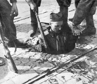 Warsaw Uprising: This insurgent from Mokotów district, is coming out of sewers and surrendering to Germans.